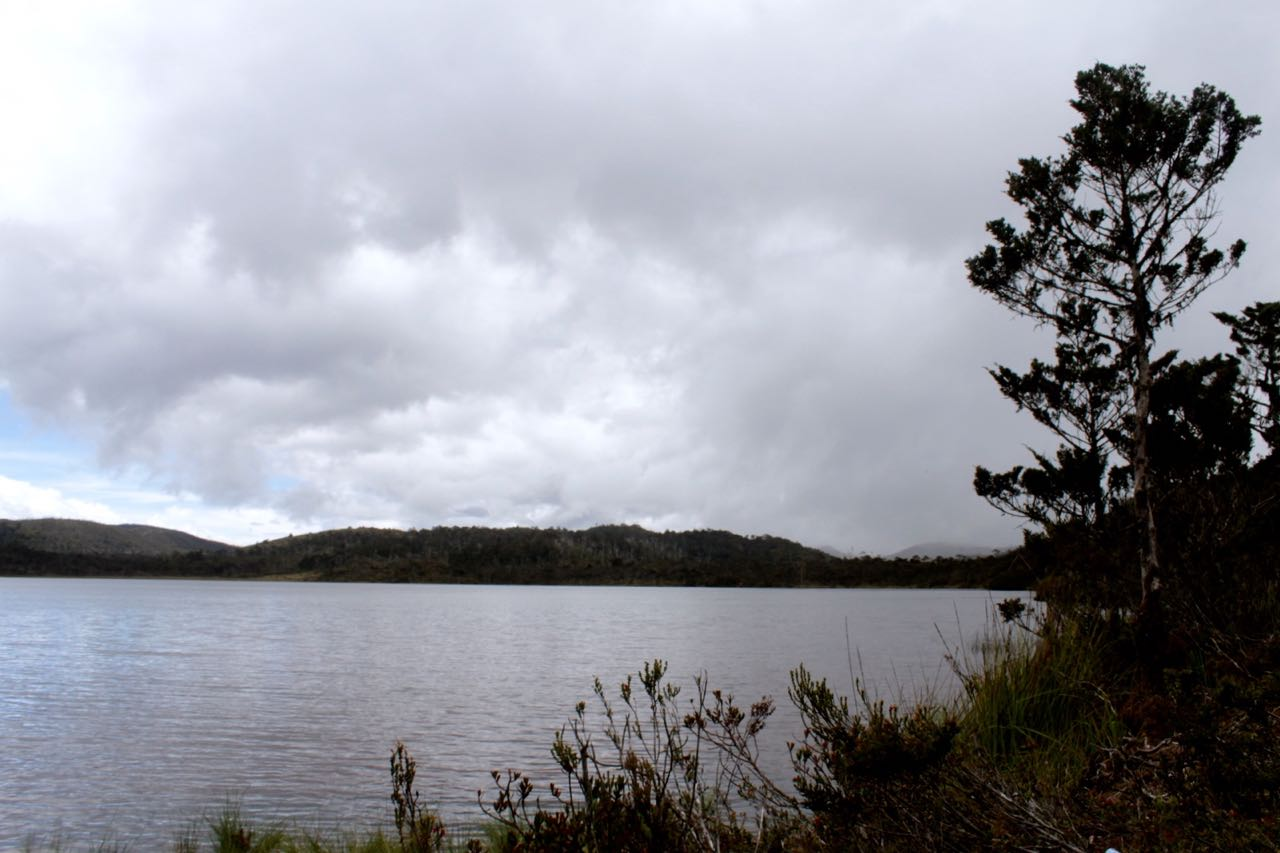 danau habema